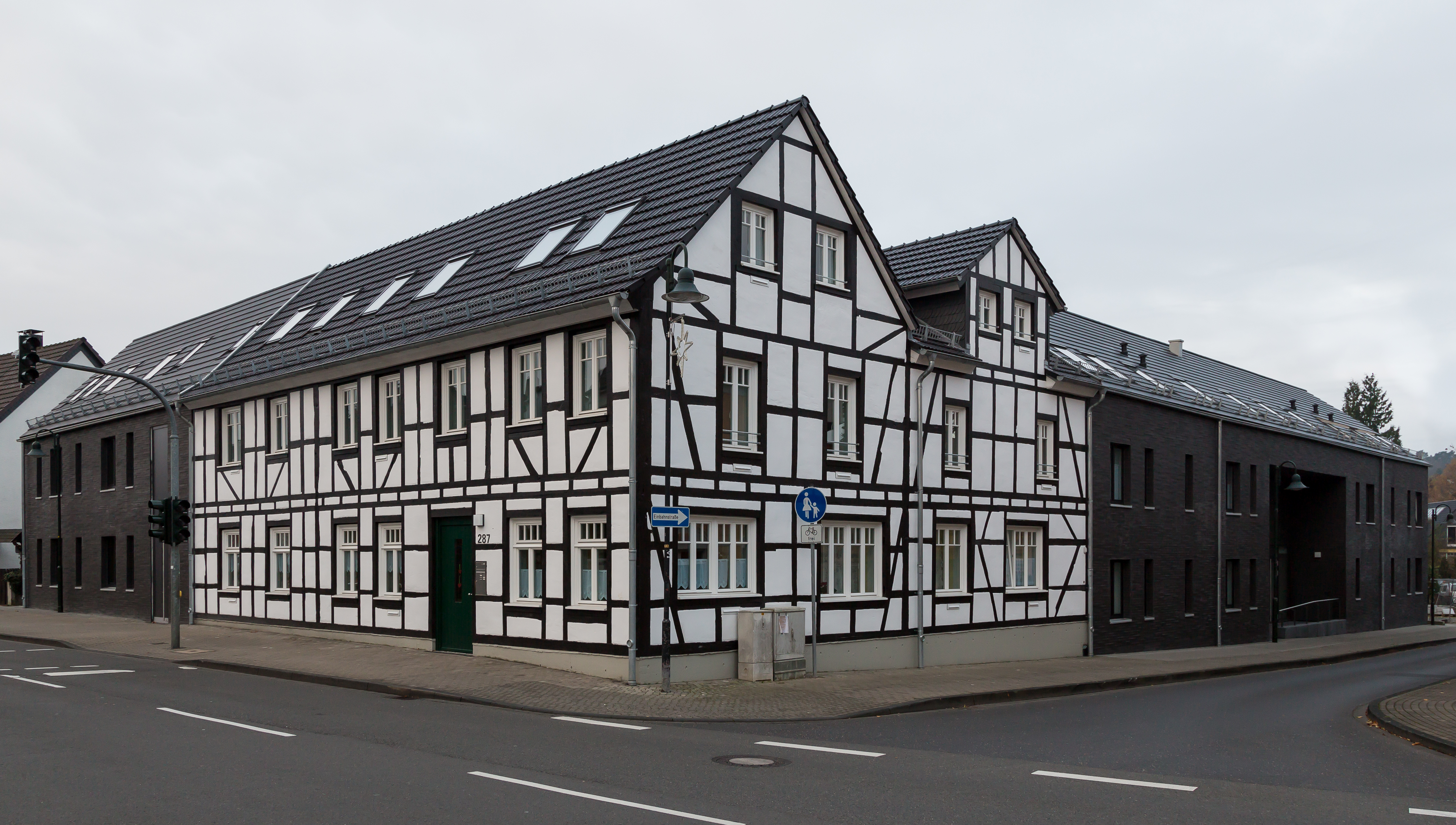 Rösrath-Forsbach, North Rhine-Westphalia, Germany: Forsbacher Hof after renovation; former cultural heritage monument No. 3